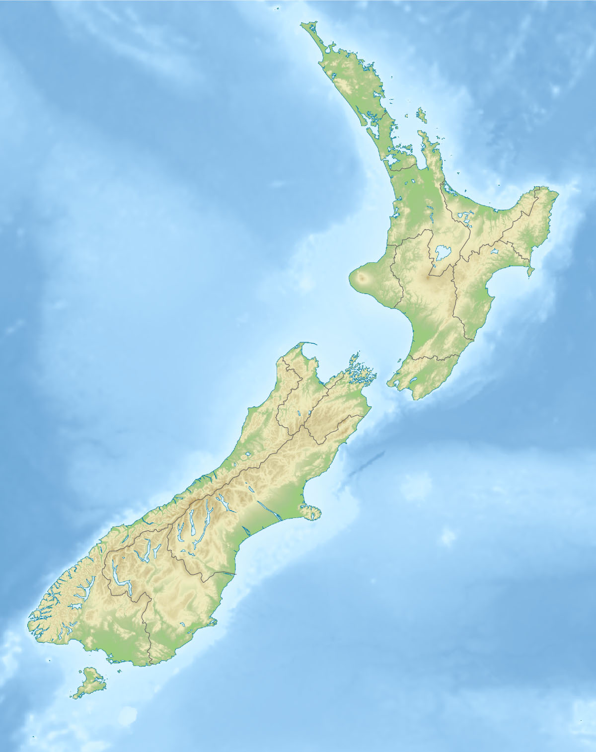 Location map of New Zealand Equirectangular projection, N/S stretching 120 %. Geographic limits of the map: * N: 34.0° S * S: 48.3° S * W: 165.8° E * E: 179.4° E